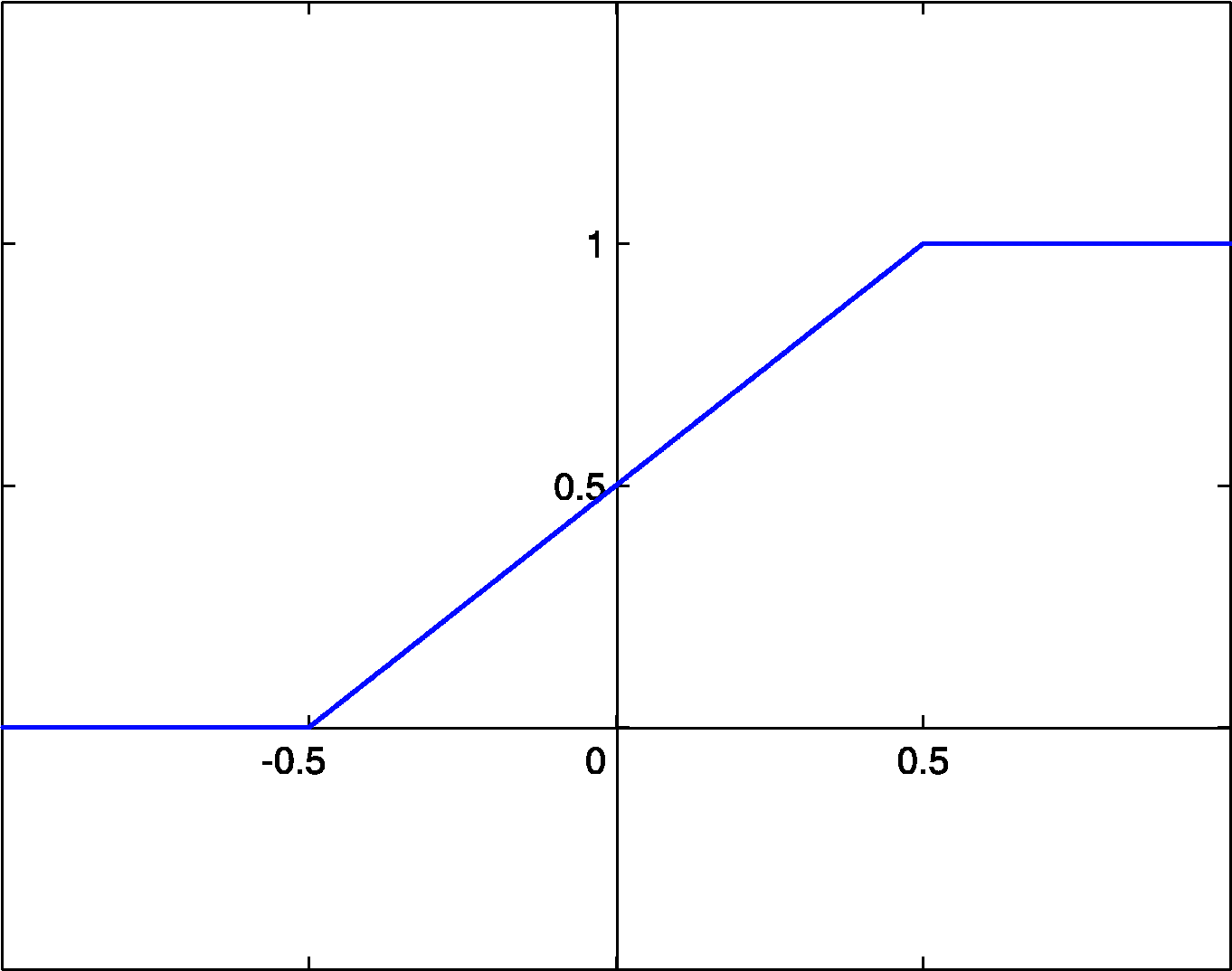 Picewise linear function used as neuron activation.